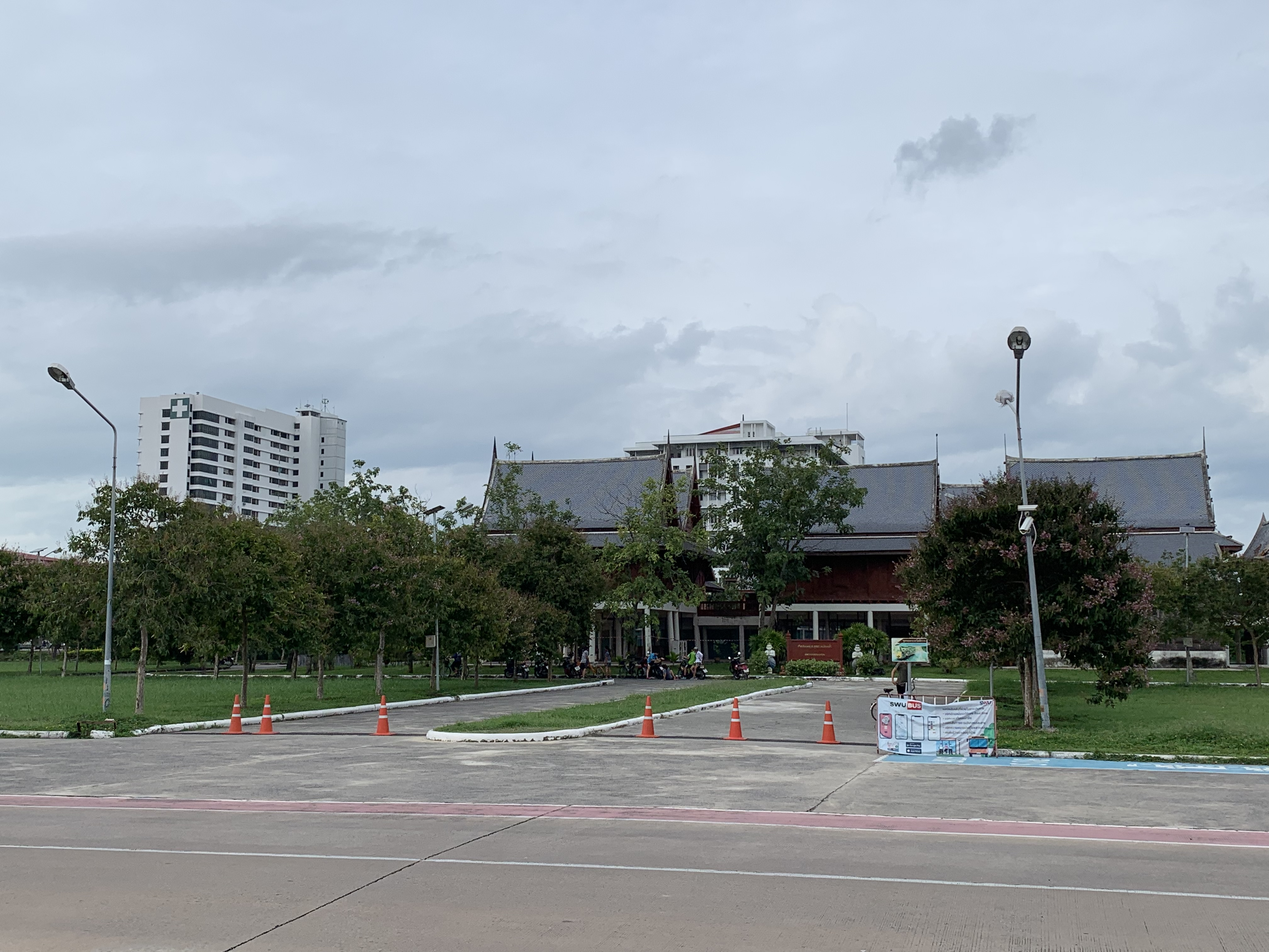 Srinakharinwirot University Ongkharak Campus